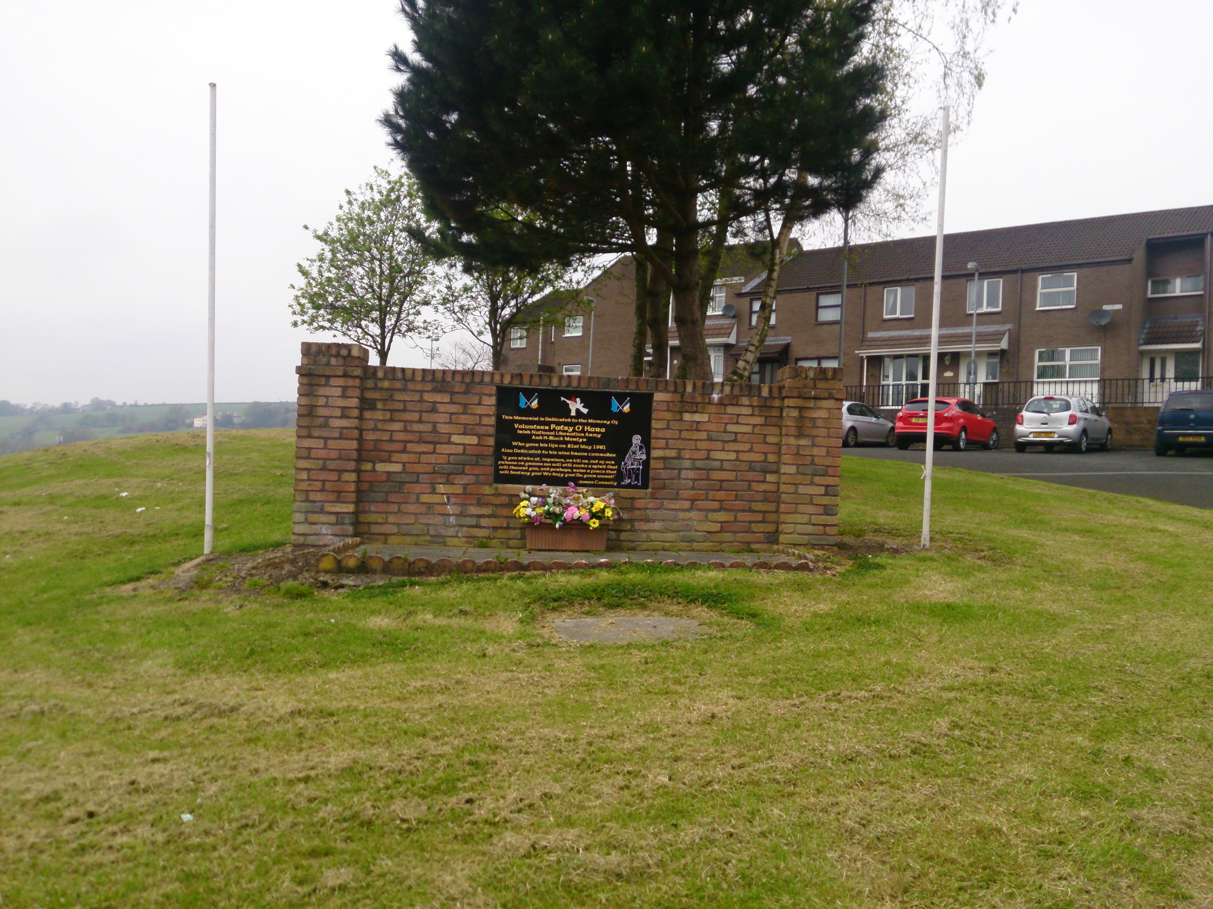 A memorial to INLA member and Hunger Striker Patsy O'Hara in Derry.